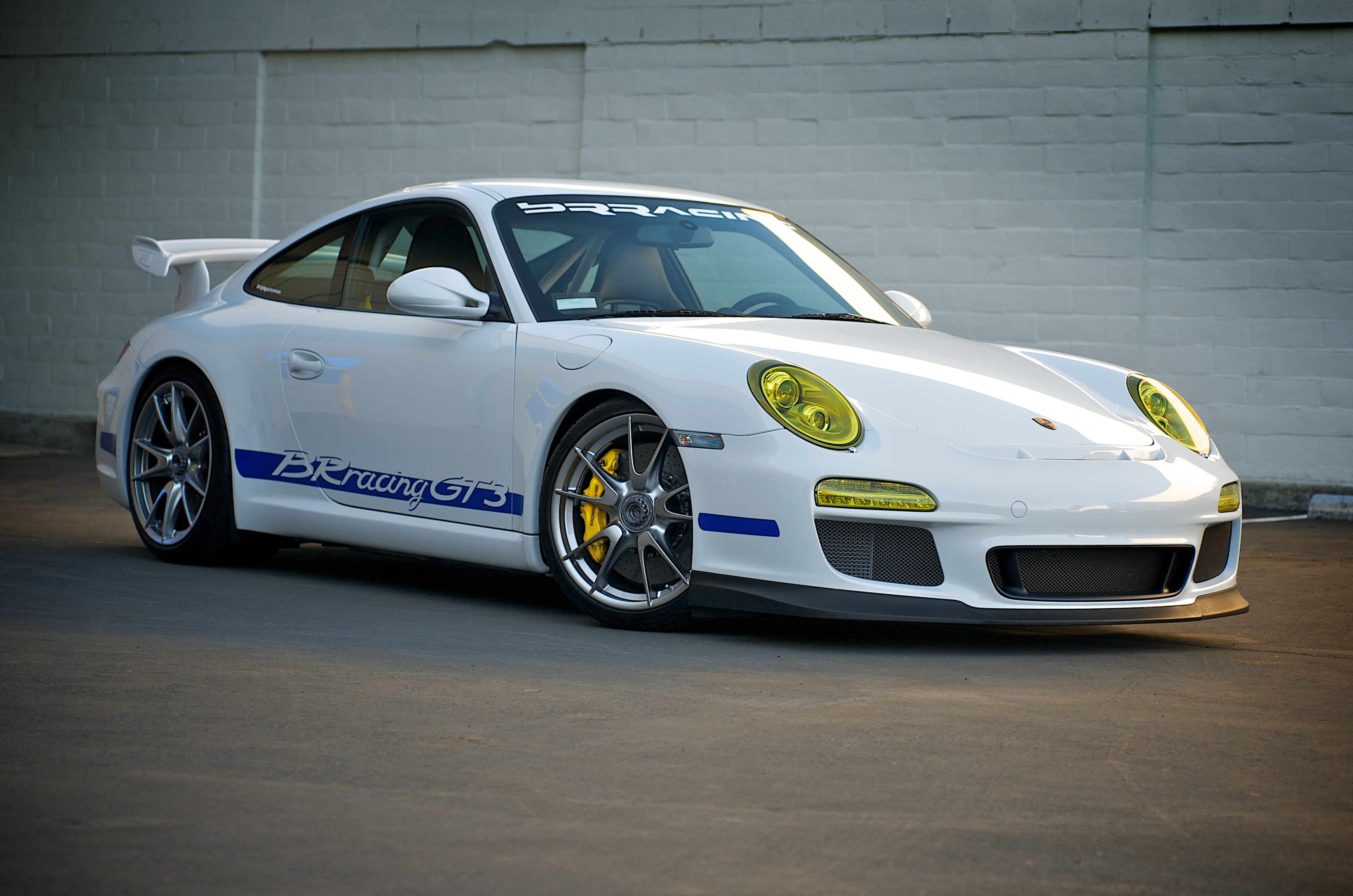 BRRacing's Porsche 997 GT3 with selective yellow headlights.BRRacing's Porsche GT3